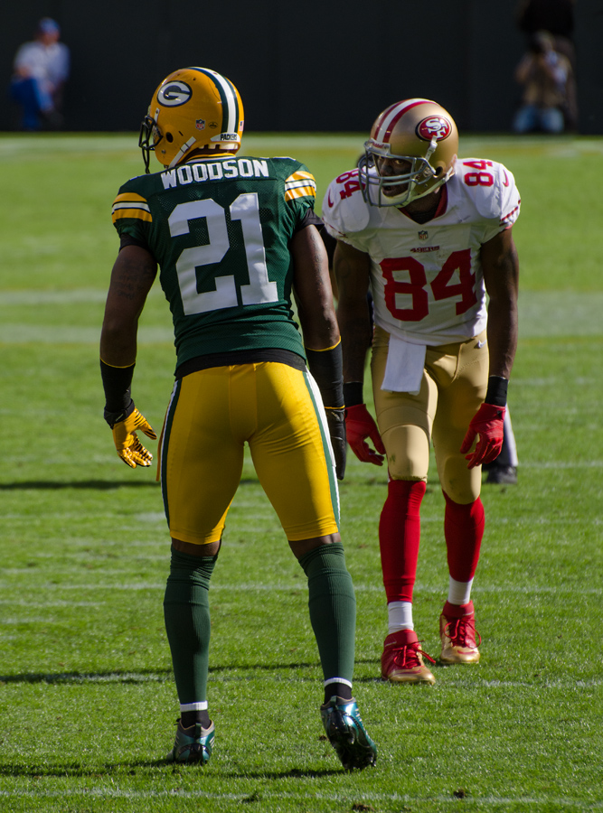 San Francisco 49ers vs. Green Bay Packers at Lambeau Field on September 9, 2012. Photo by Mike Morbeck.